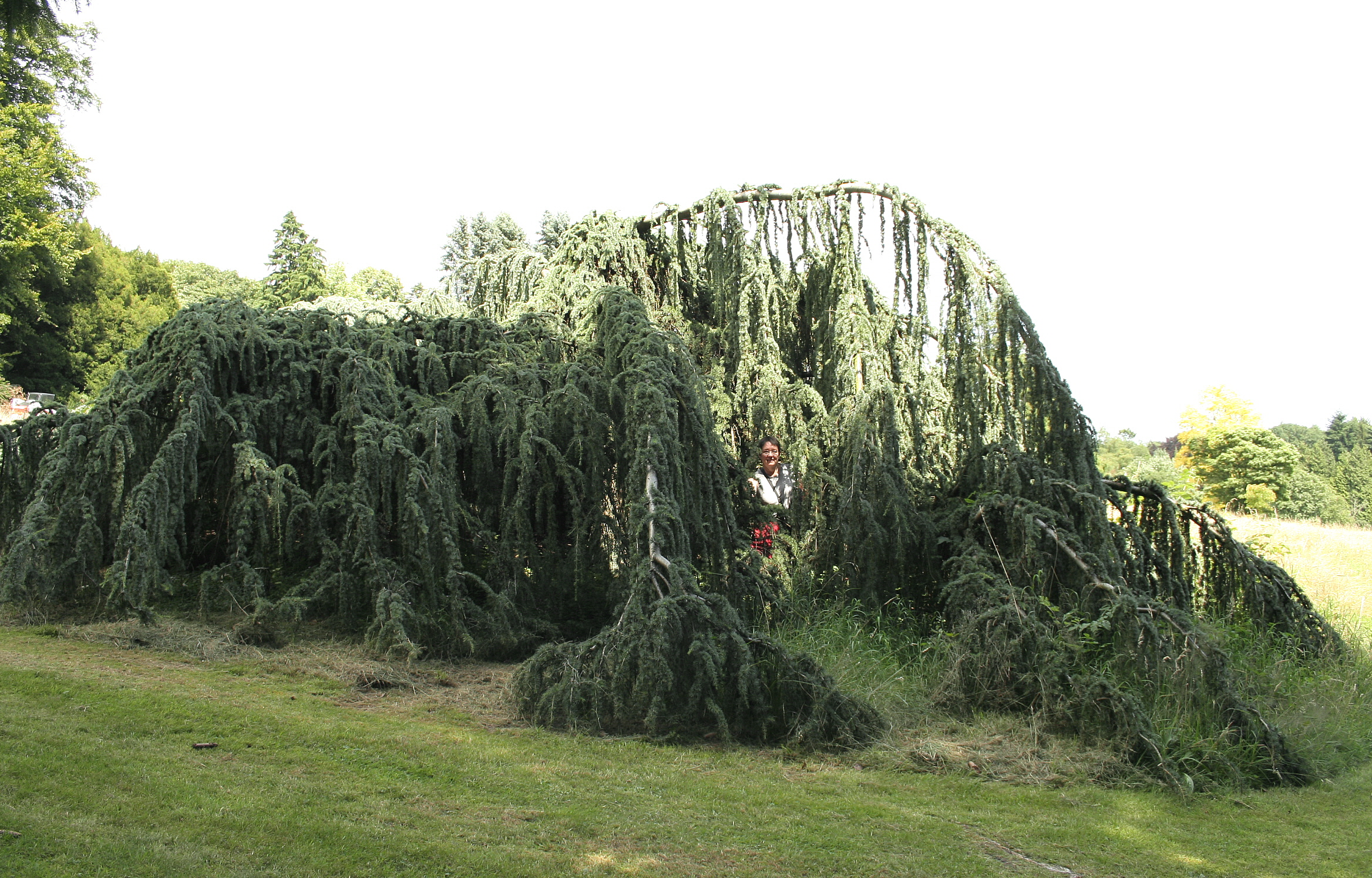 Weeping Atlas Cedar (Cedrus libani var. atlantica 'Glauca Pendula'). Walon: Pindant Cêde di l'Atlas’ (Cedrus libani var. atlantica 'Glauca Pendula').